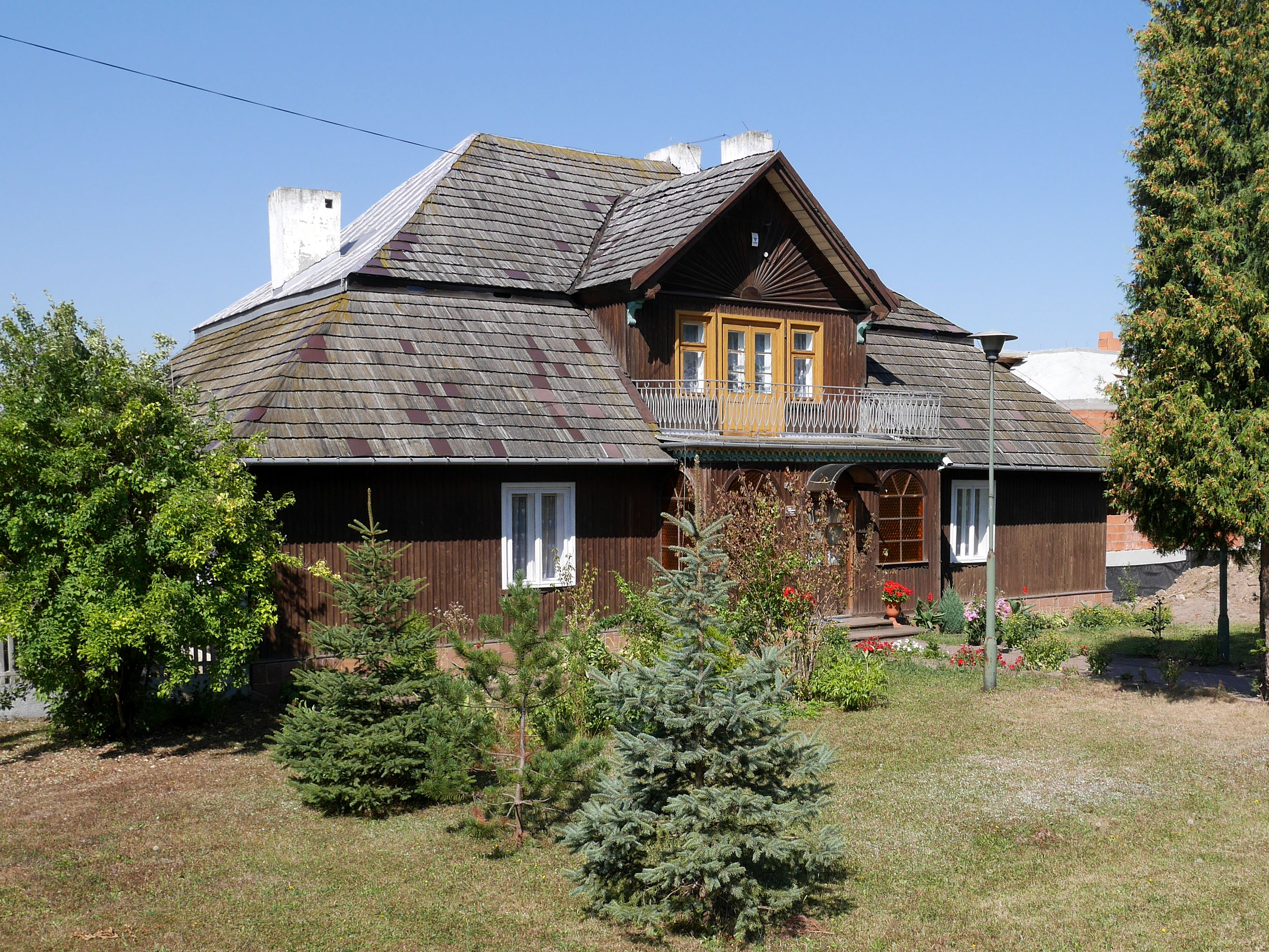 Parsonage in Suków